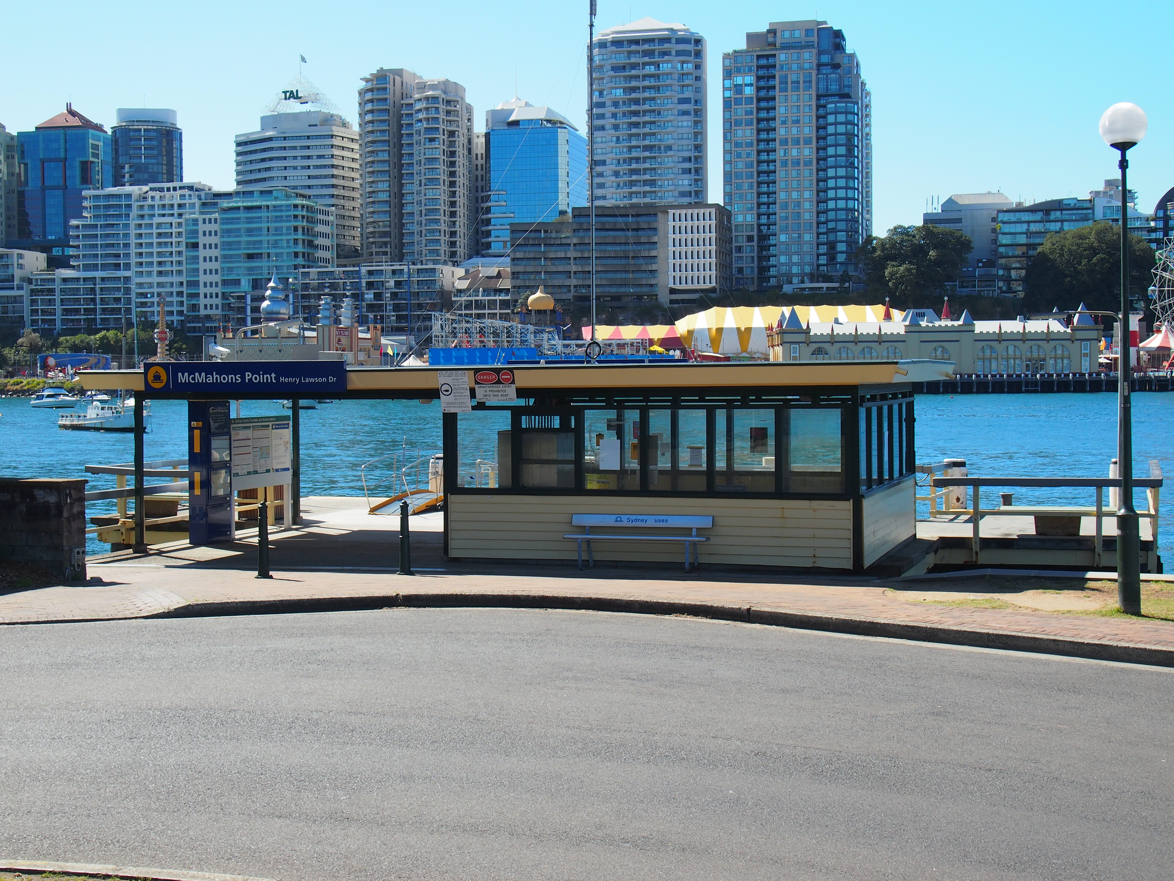 The McMahons Point ferry wharf in September 2012